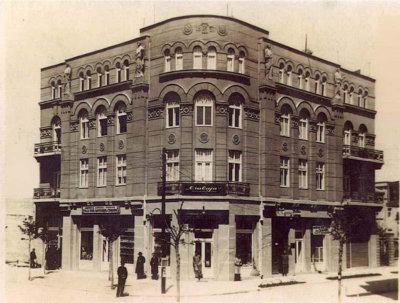 Palace of the Čitkuševi Brothers in Skopje, Macedonia